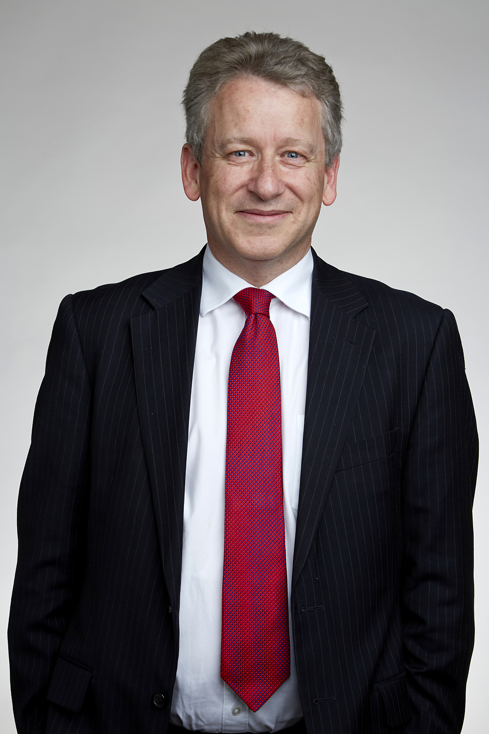 Neil Andrew Robert Gow (born 30 November 1957) FRS FRSE FMedSci is a Professor of Microbiology in the Institute of Medical Sciences at the University of Aberdeen. Attribution: The Royal Society